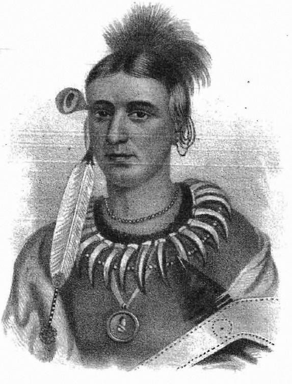 Mahaska